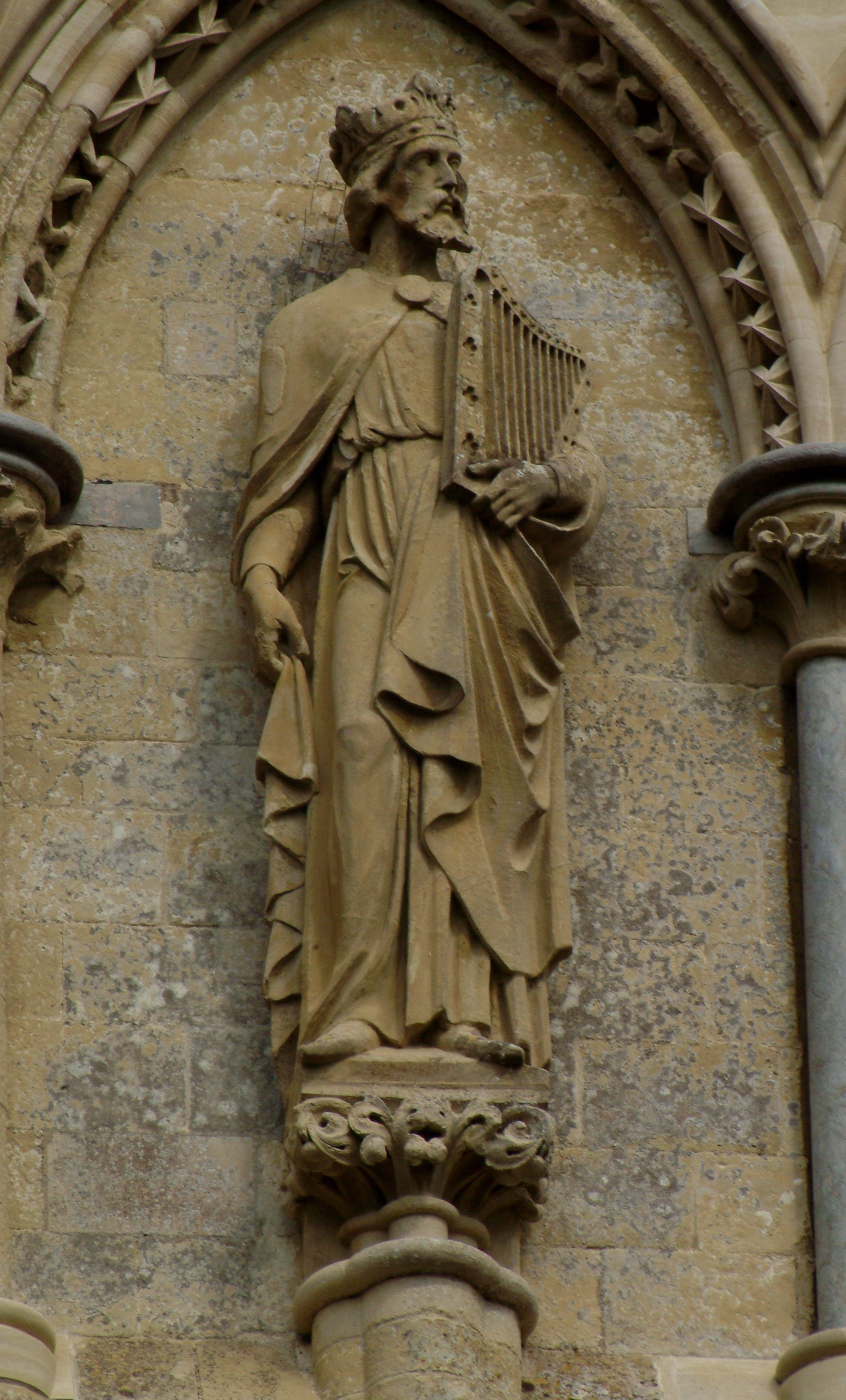 Statue of King David on the West Front of Salisbury cathedral, UK